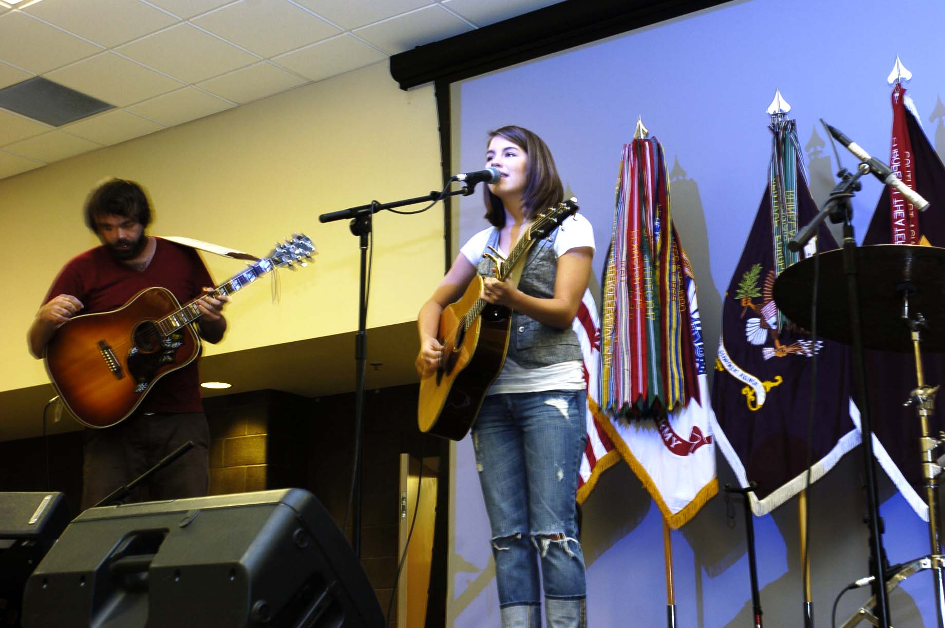 Singer Bethany Dillon performs a song from her new album â€œStop and Listenâ€? during Patriot Day ceremonies at Fort Gillem Sept. 11. Dillon also held a concert for Fort Dillem personnel following the ceremony.